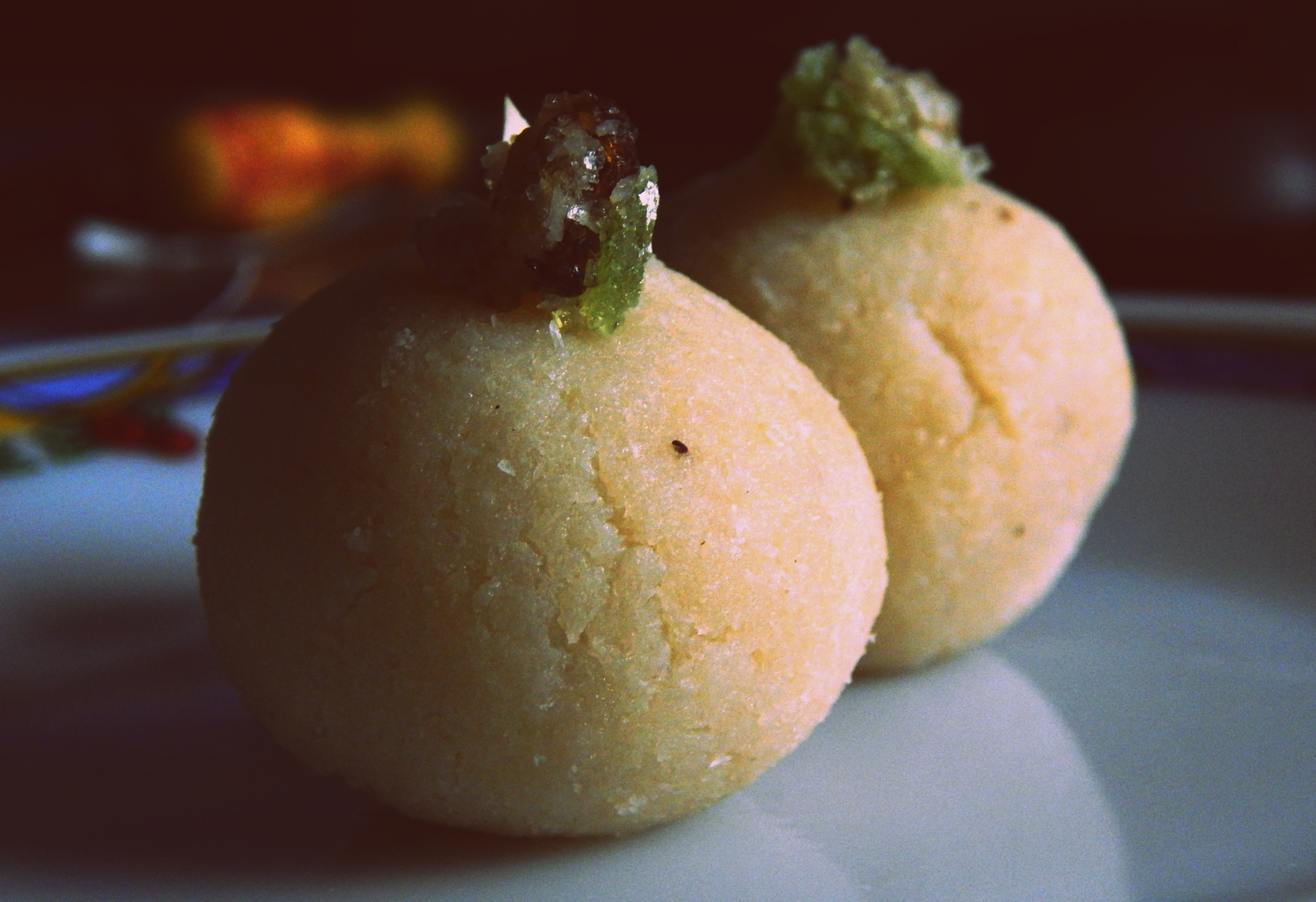 Desiccated coconut laddus with gulkand one of my mothers creations.